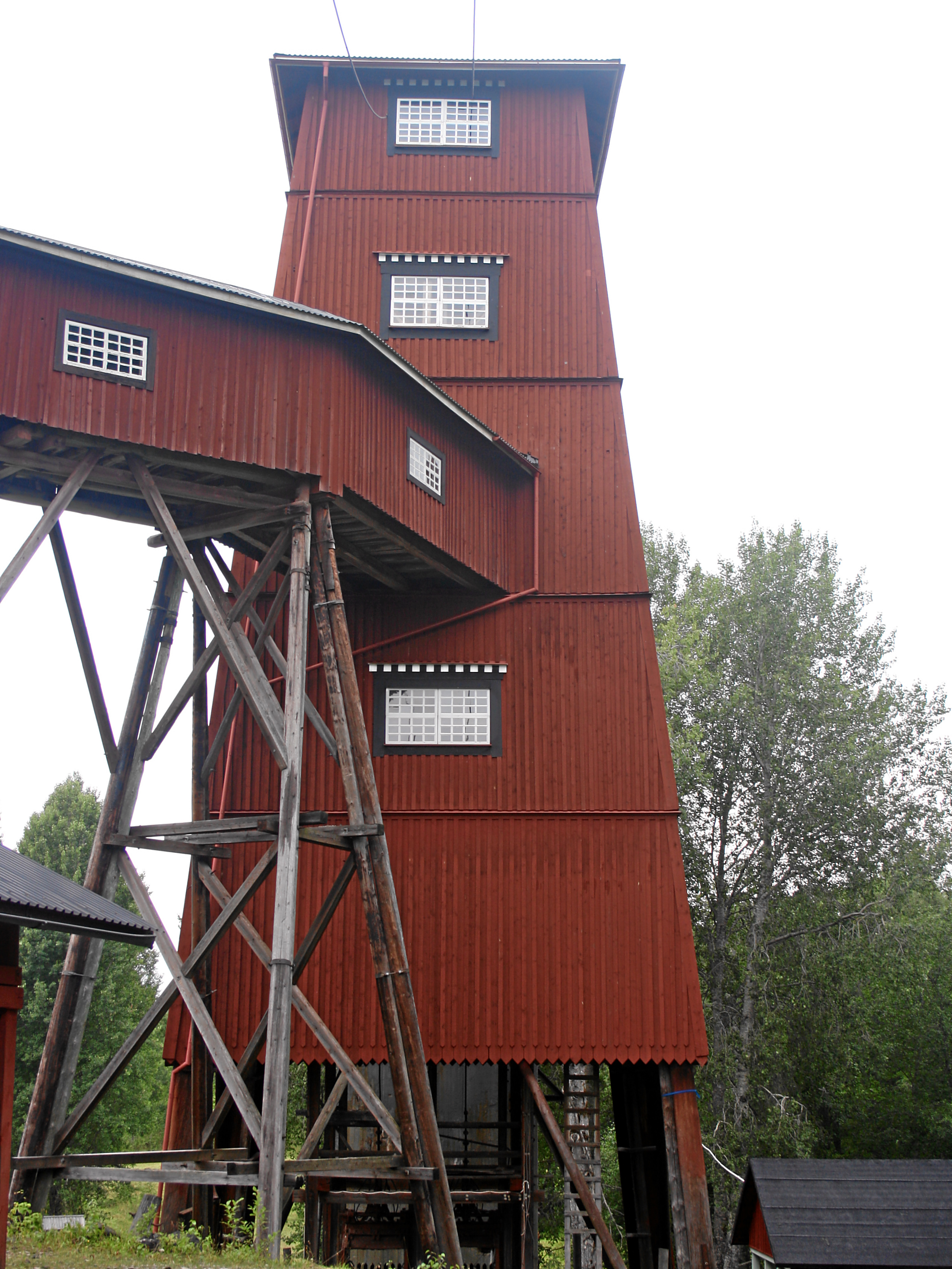 Långban, Filipstad municipality, Sweden. Headframe of the New Shaft, built in 1915-20.